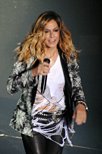 Greek singer Anna Vissi live on stage at Athinon Arena in Athens, Greece